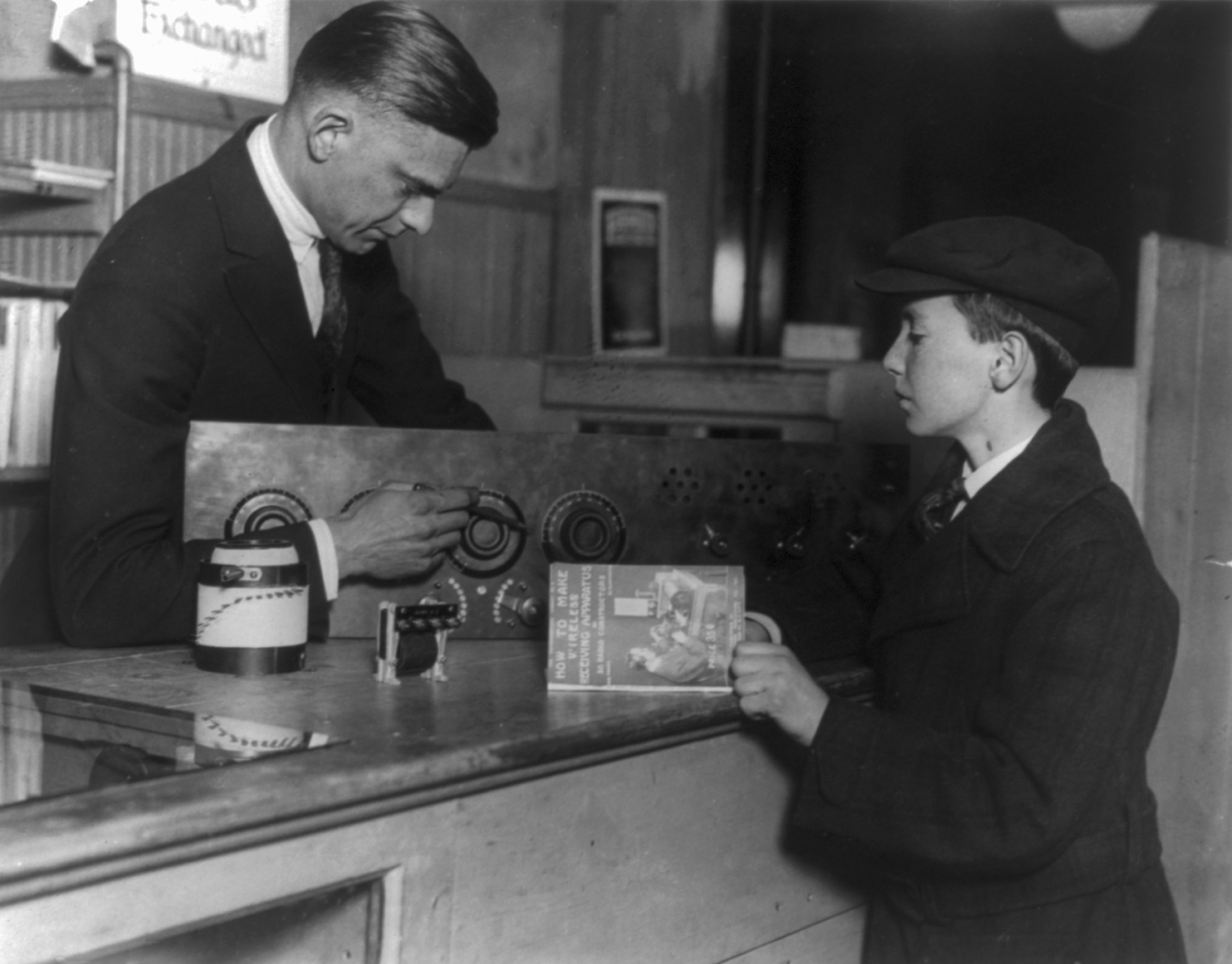 Oscar Wuertz instructing a youngster in the art of making his own wireless set in a Brooklyn radio shop.